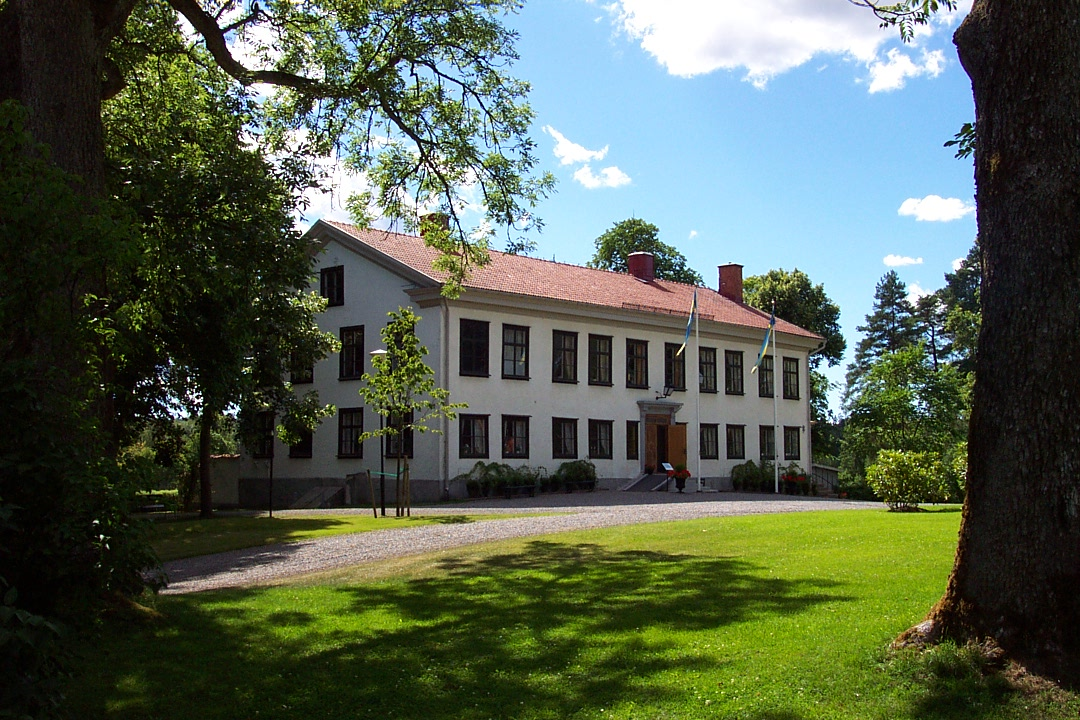 An exterior photo of the Björkborn manor house. This is on the campus of the Bofors iron works, just outside Karlskoga, Sweden. Because Alfred Nobel lived in this house and owned Bofors at the time of his death, his will establishing the Nobel Prizes was adjudicated in Sweden.